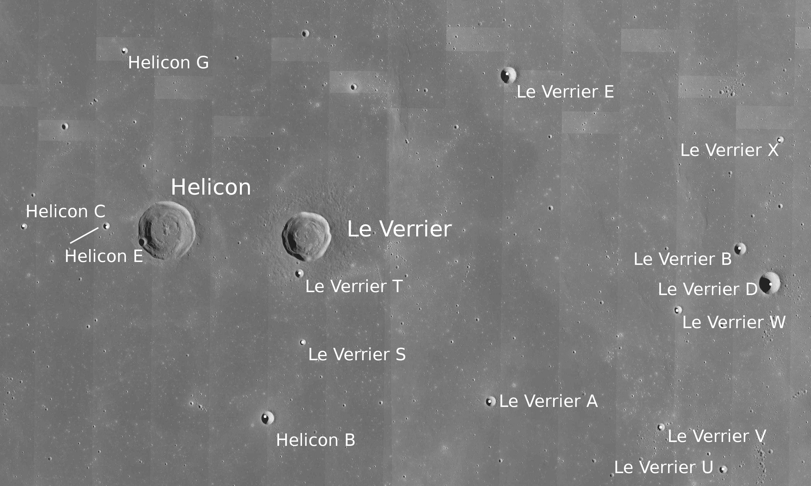 Craters Helicon and Le Verrier with satellite features (detail of LRO - WAC global moon mosaic; Mercator projection)